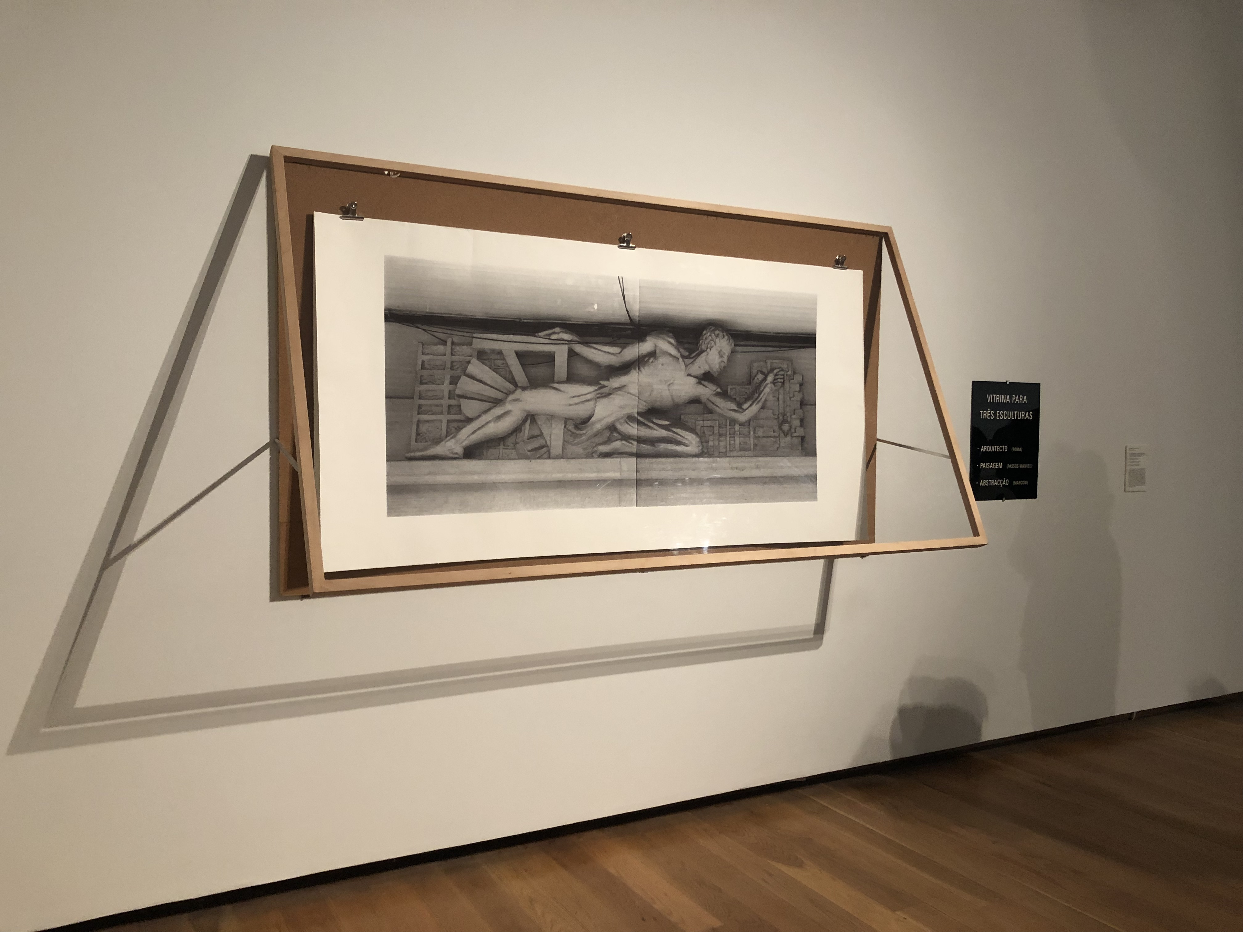 View of "3 Entalados" 2009 at Galeria Municipal do Porto, june 2019.